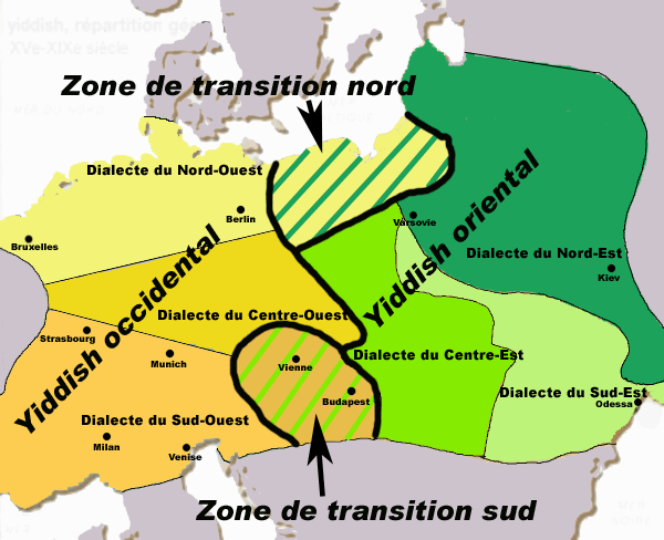 French Map of Yiddish dialects between 15th and 19th century.